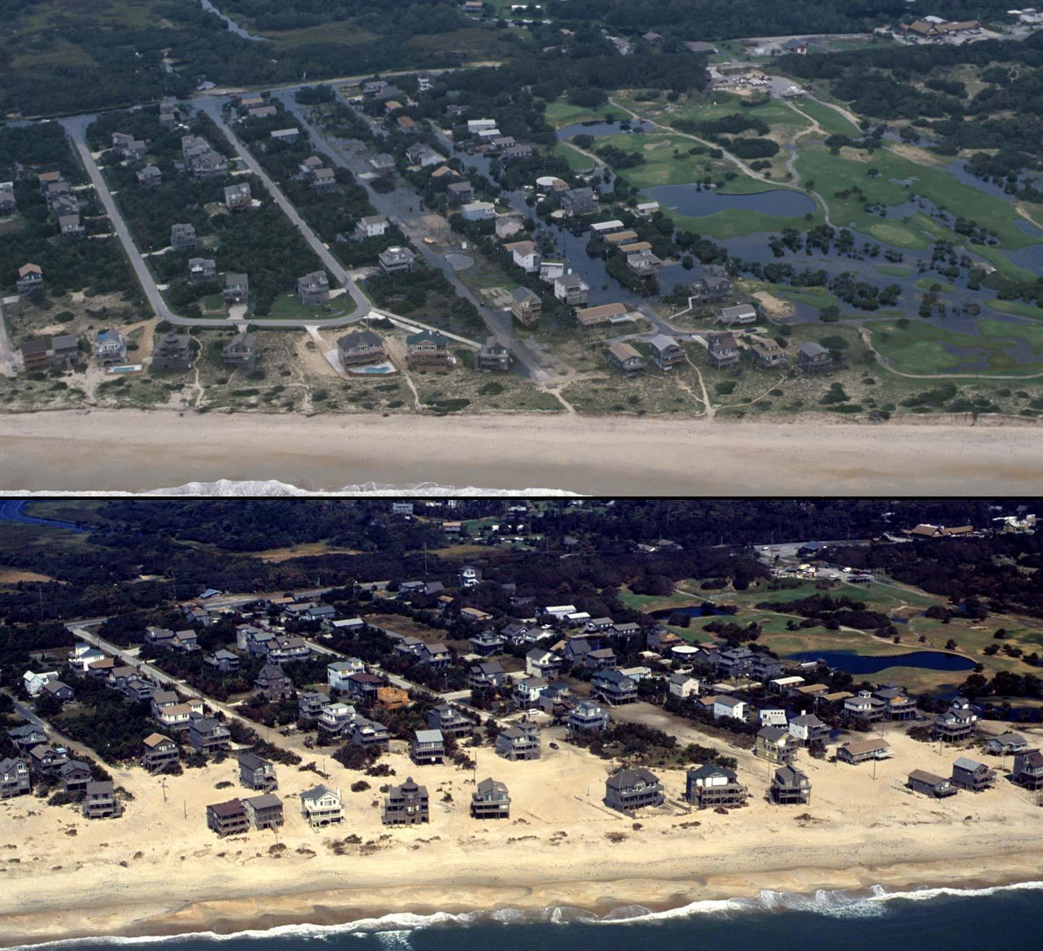 Hatteras Island, North Carolina before and after Hurricane Isabel